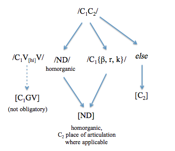 A flowchart of Wamesa (Wandamen) morphophonological processes which reduce and produce consonant clusters. Based on data from Gasser 2014.